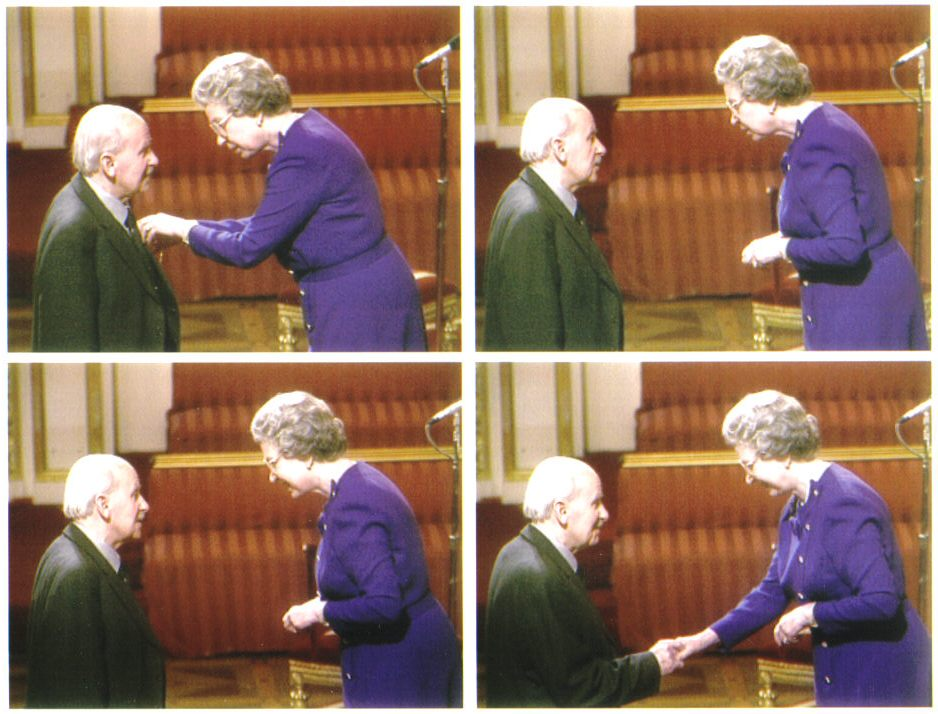 Dominic Bruce receives OBE from Queen 1995